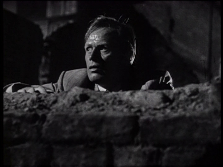 Cropped screenshot of Richard Widmark from Night and the City.